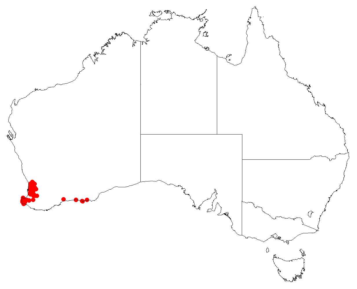 Collections data from Australasian Virtual Herbarium for Opercularia echinocephala downloaded 12 May 2018